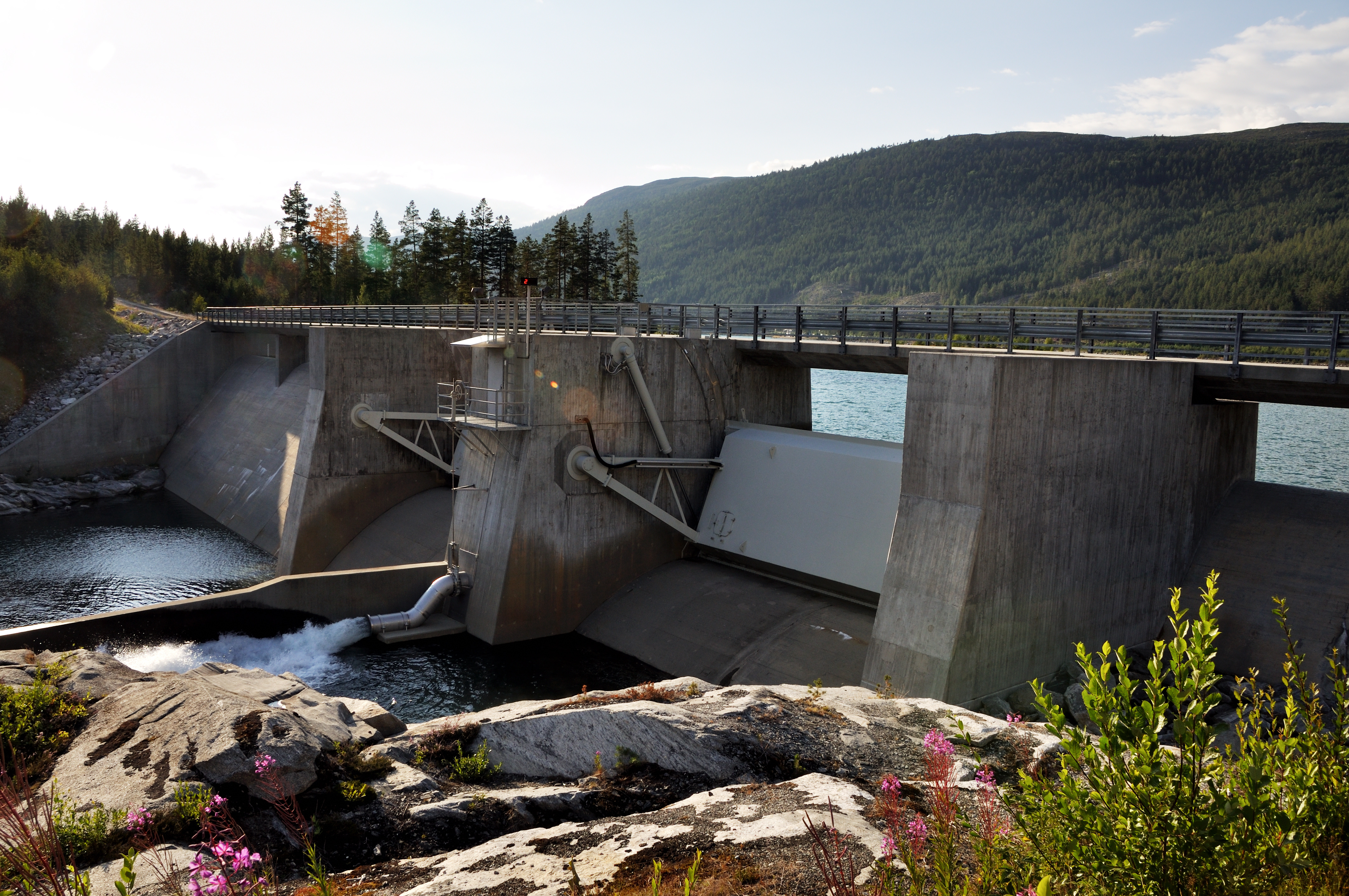 Heggebottvatnet lake and reservoir, dam.